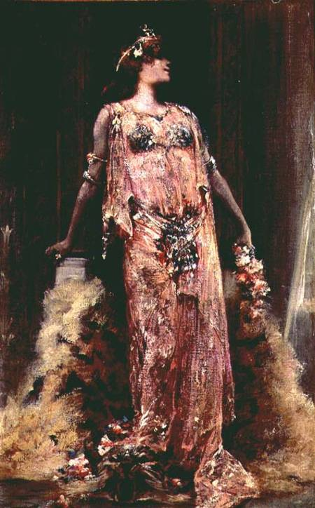 Sarah Bernhardt (1844-1923) in the role of Cleopatra